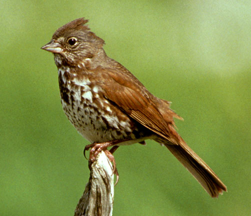 Fox sparrow